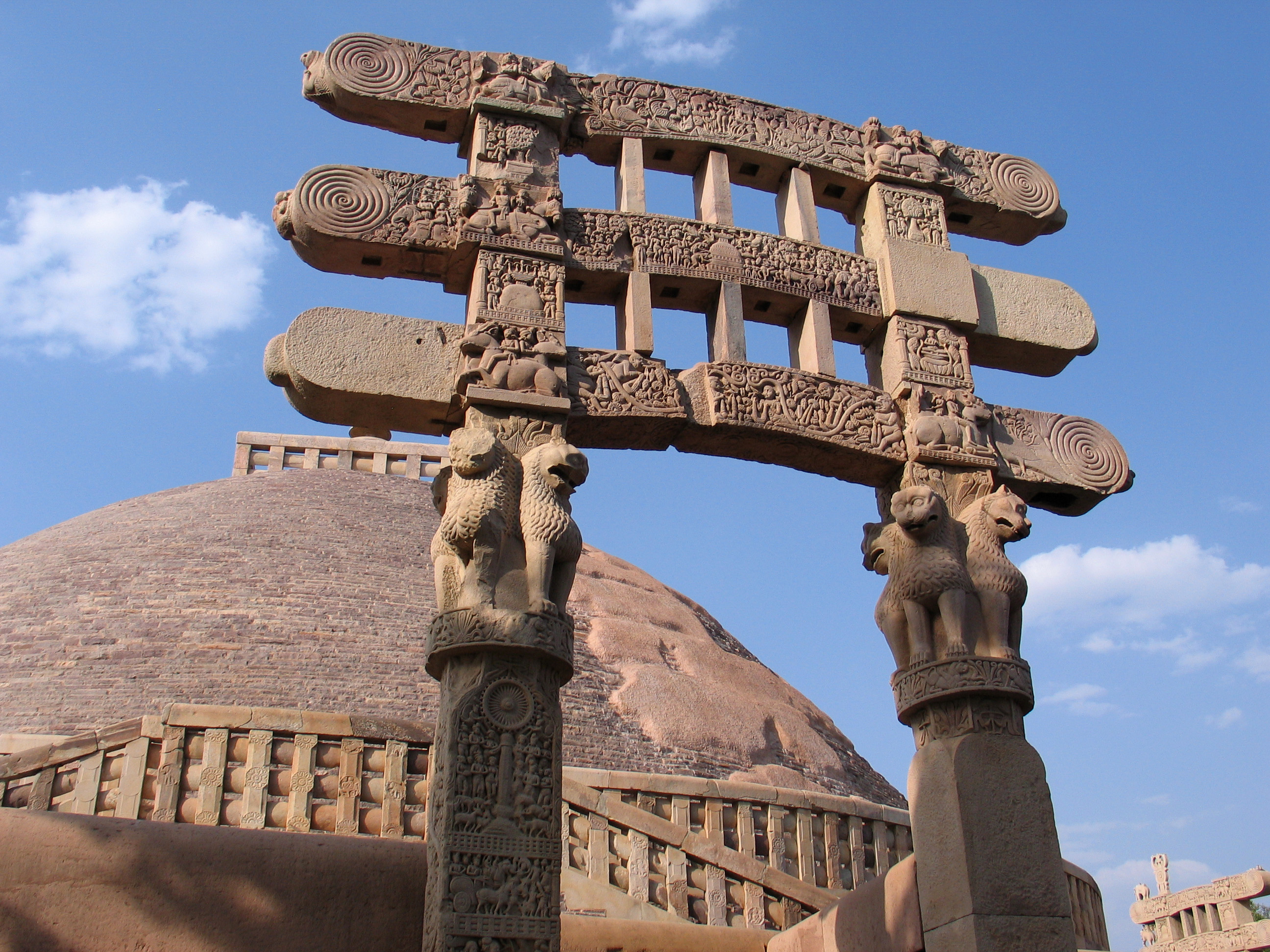 Sanchi Great Stupa: south gateway